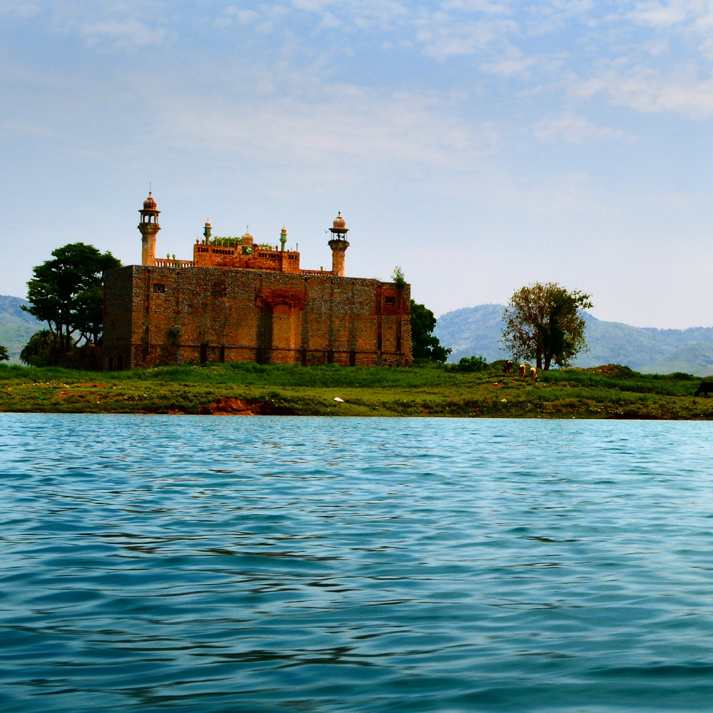 A Mosque at the bank of a lake here in HariPur, Pakistan.